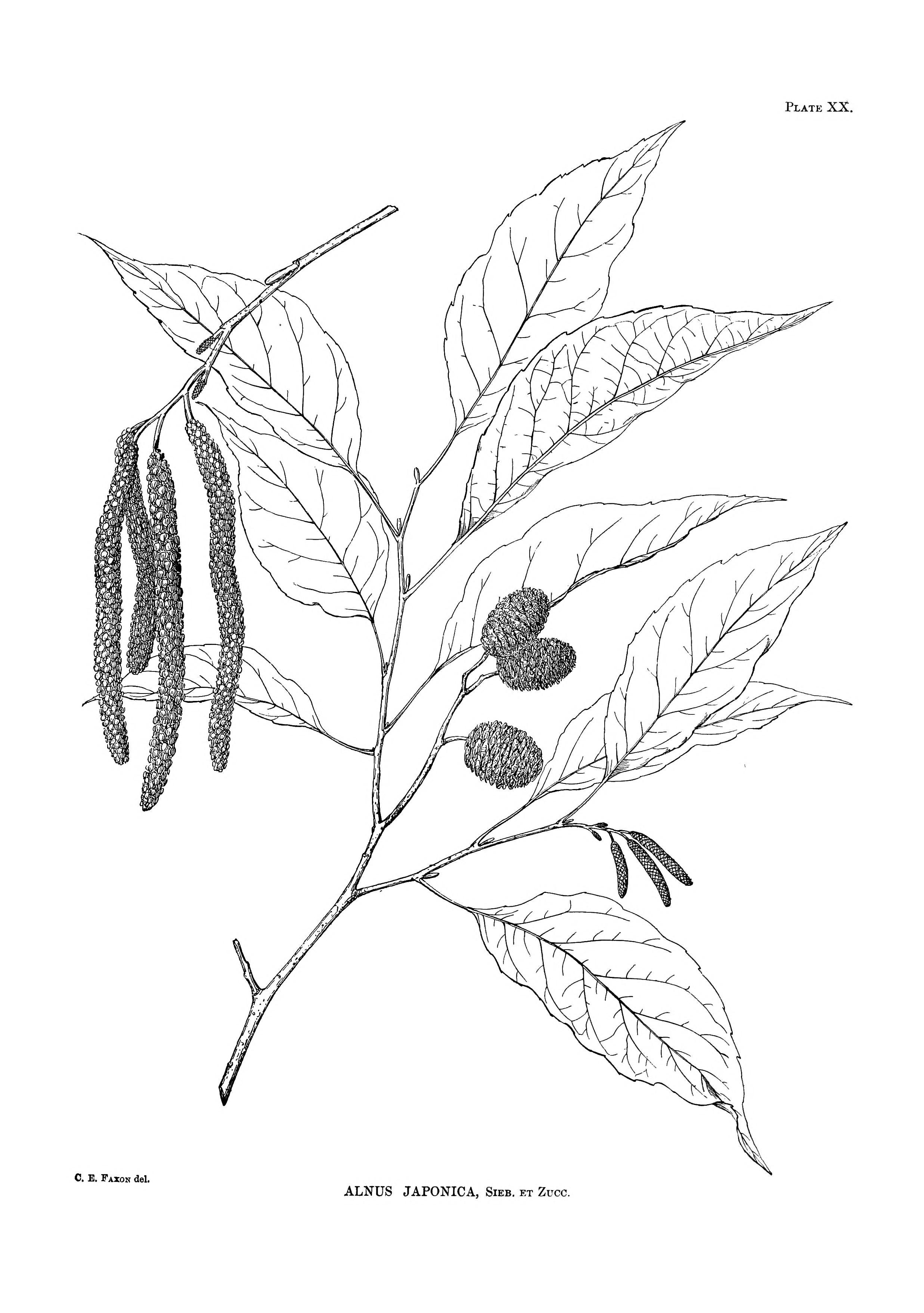 Title: Forest flora of Japan. Notes on the forest flora of Japan Year: 1894 (1890s) Authors: Sargent, Charles Sprague, 1841-1927 Charles Edward Faxon (1846-1918) Subjects: Trees; Forests and forestry; Botany Publisher: Boston, Houghton, Mifflin Text Appearing Before Image: Platk XX. Text Appearing After Image: C. E. Faios del. ALNUS JAPONICA, Sieb. et Zucc.